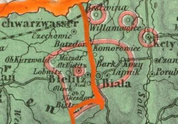 Bielitz-Biala language island on a map from 1855